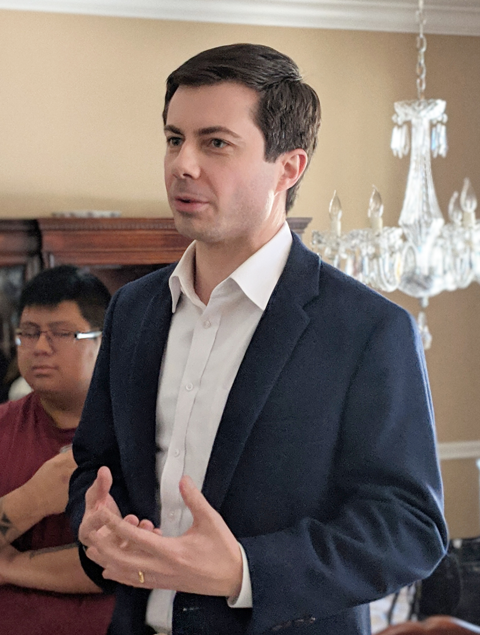 Pete Buttigieg @ Merrimack, NH (20190216)